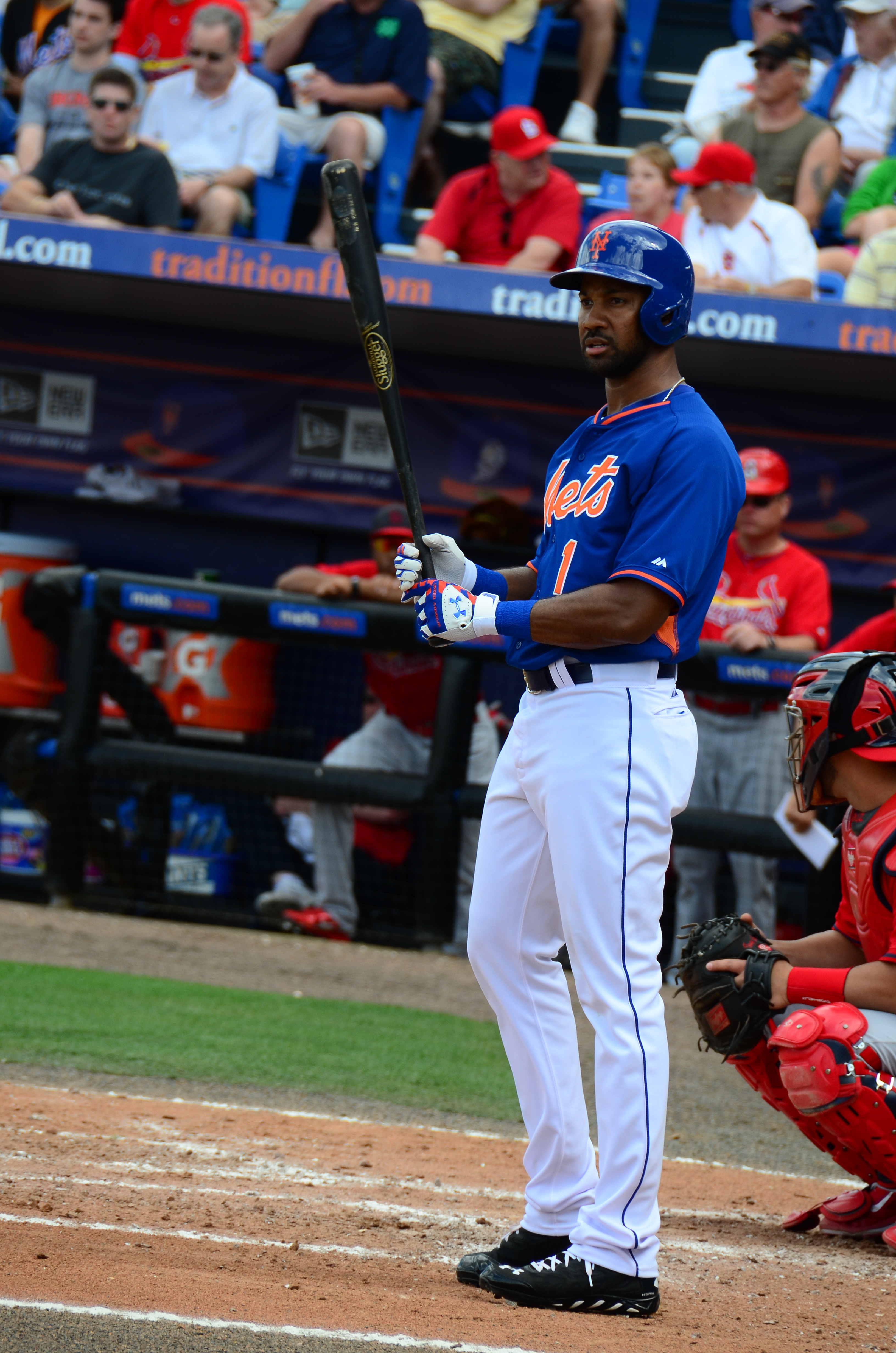 Chris Young, Mets, March 7, 2014